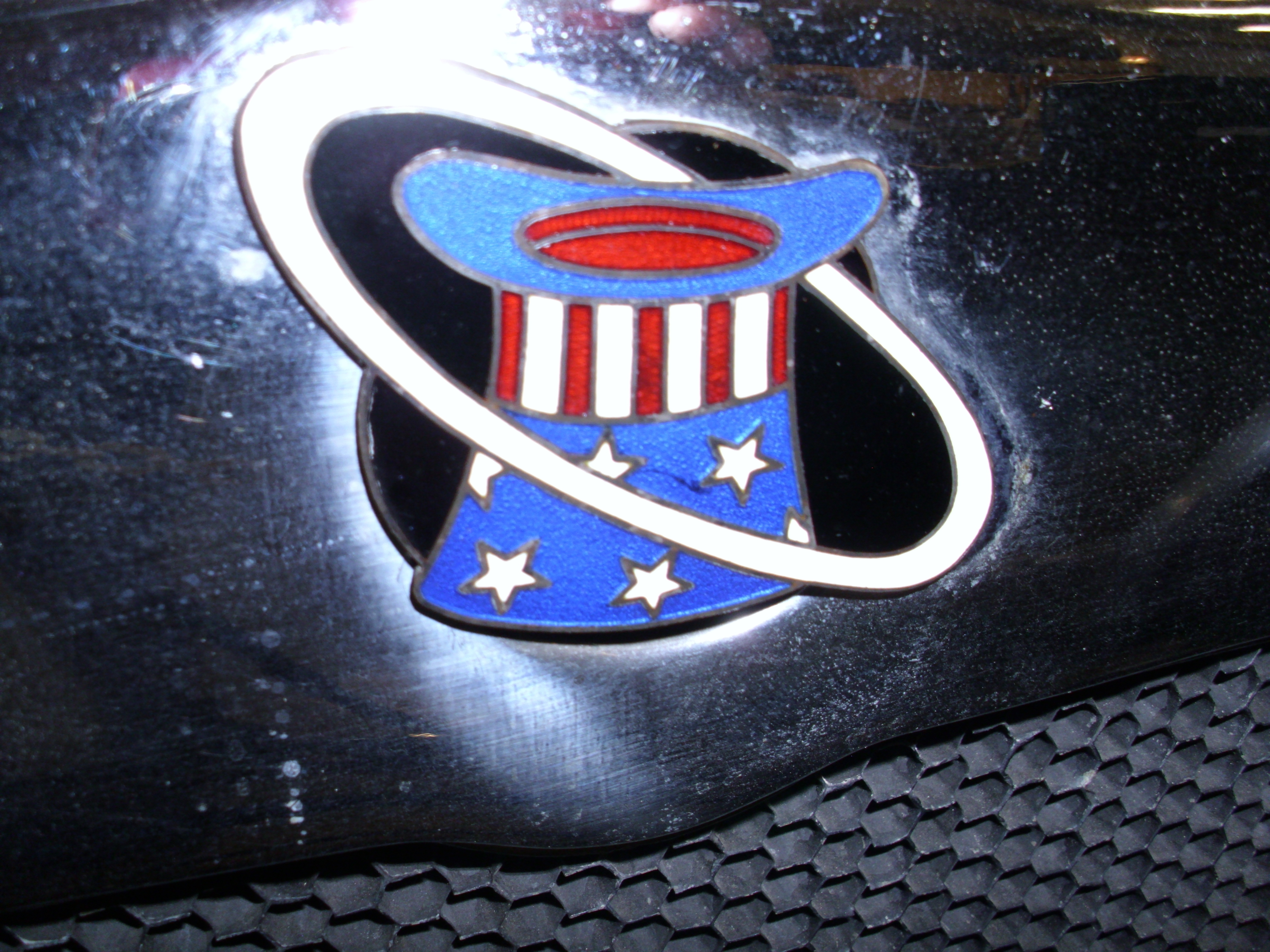 Now I've forgotten whose logo this is. I think it is from a car named for a famous person, like Rickenbacker. I'm sure someone will tell me quickly.